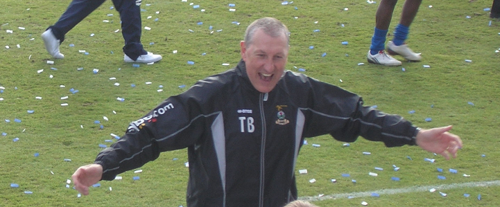 Terry Butcher receiving the congratulations of fans at the Tulloch Caledonian Stadium, Inverness, Scotland